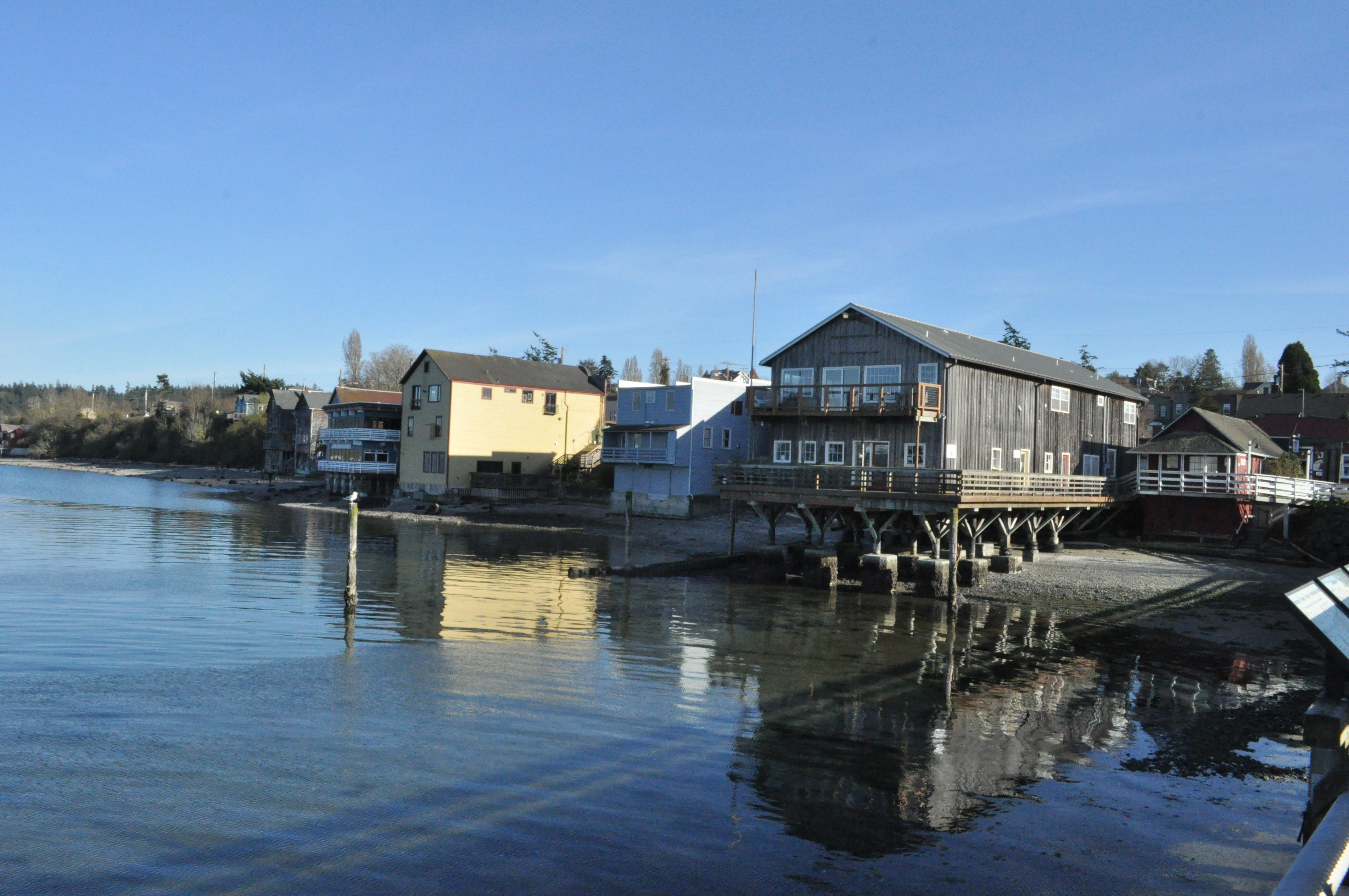 Looking toward Front Street, Coupeville, Washington businesses from Old Grain Wharf, Coupeville, Washington. Coupeville is entirely within the Central Whidbey Island Historic District, part of the Ebey's Landing National Historical Reserve. This is one of a series of shots headed progressively farther out on the wharf